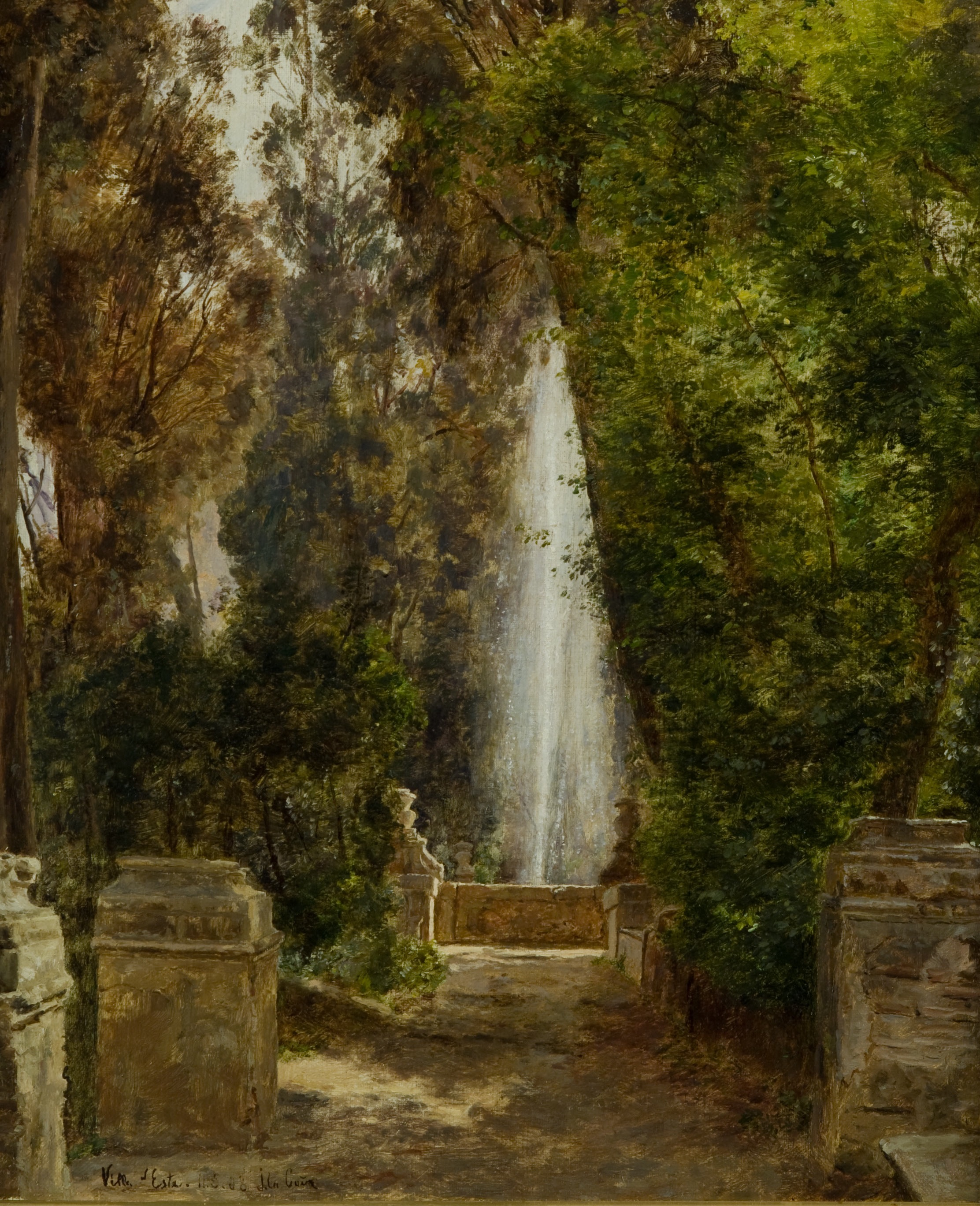 A fontain at the Villa d`Este in Tivoli, near Rome - Signed and dated “villa d`este 11-5-08 J. la Cour” - Oil on board - 46 x 38cm